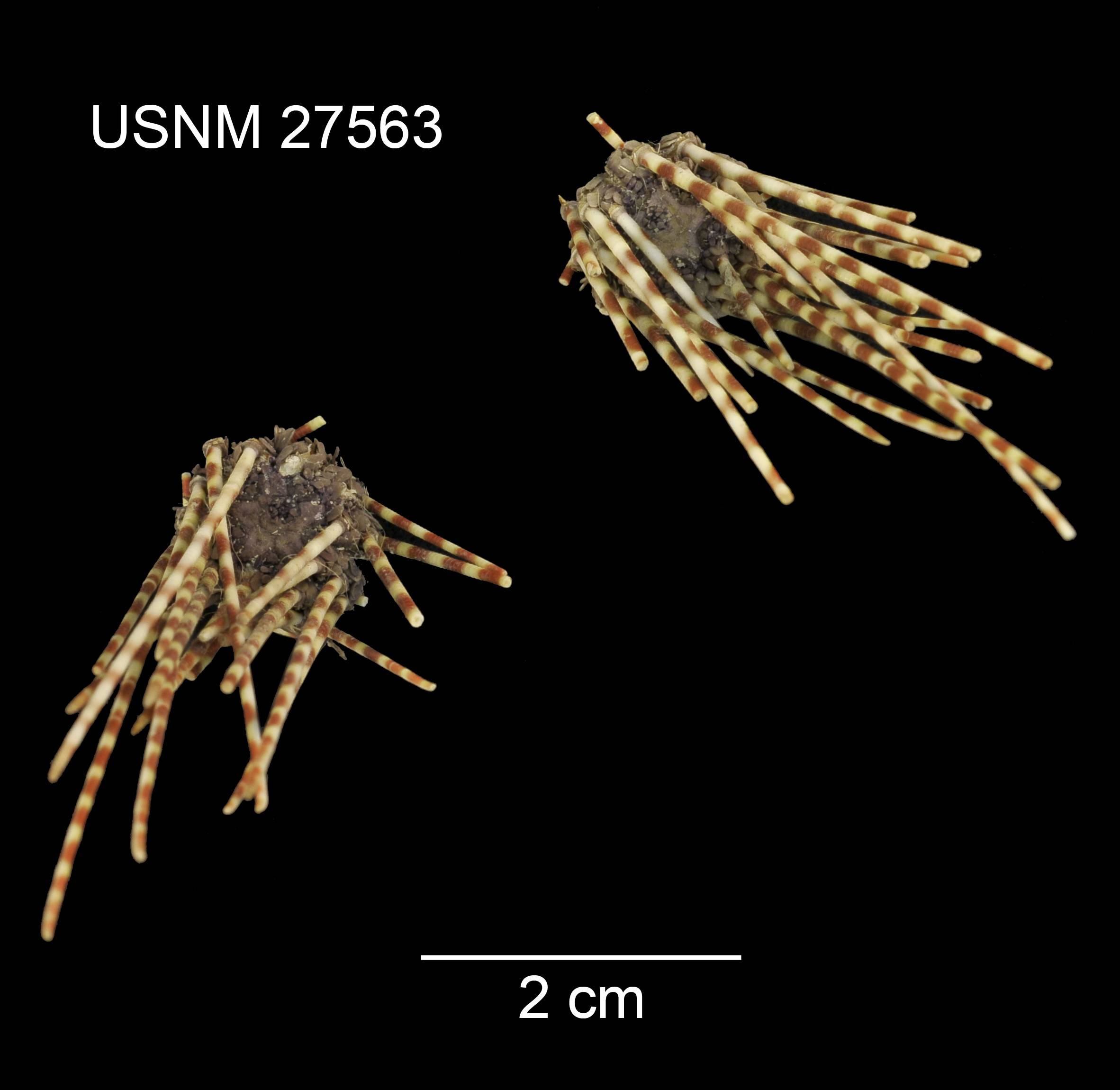 PRESERVED_SPECIMEN; Preparations: Dry; Salenia cincta A.Agassiz & H.L.Clark, 1907; Individual count: 2; Type status: SYNTYPE; Identified by: Agassiz, Alexander E.; Clark, Hubert L.; Event date: 19060809T00:00:00Z; Additional description: dorsal